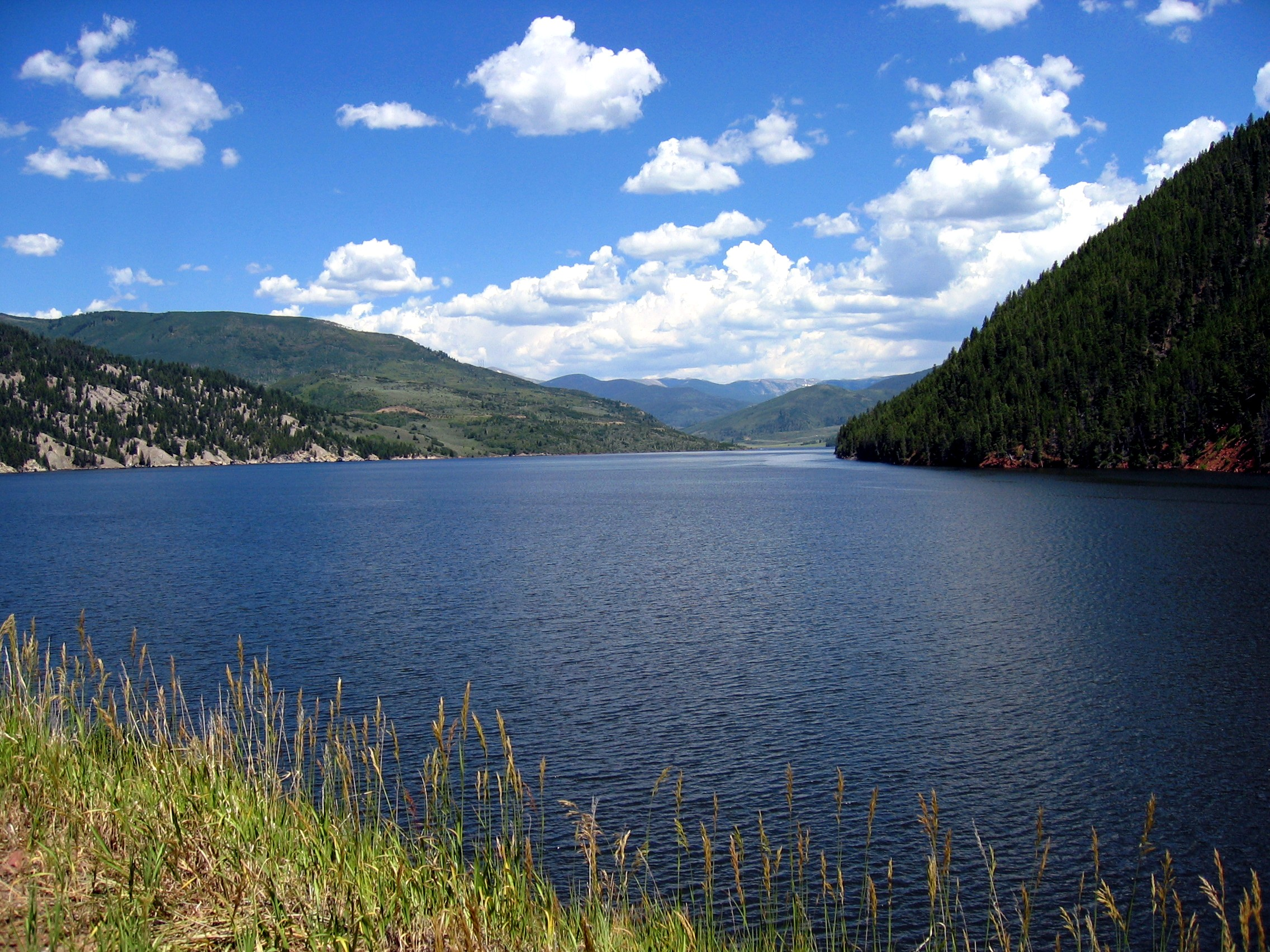 Ruedi Reservoir in July. (The image name is misspelled.)